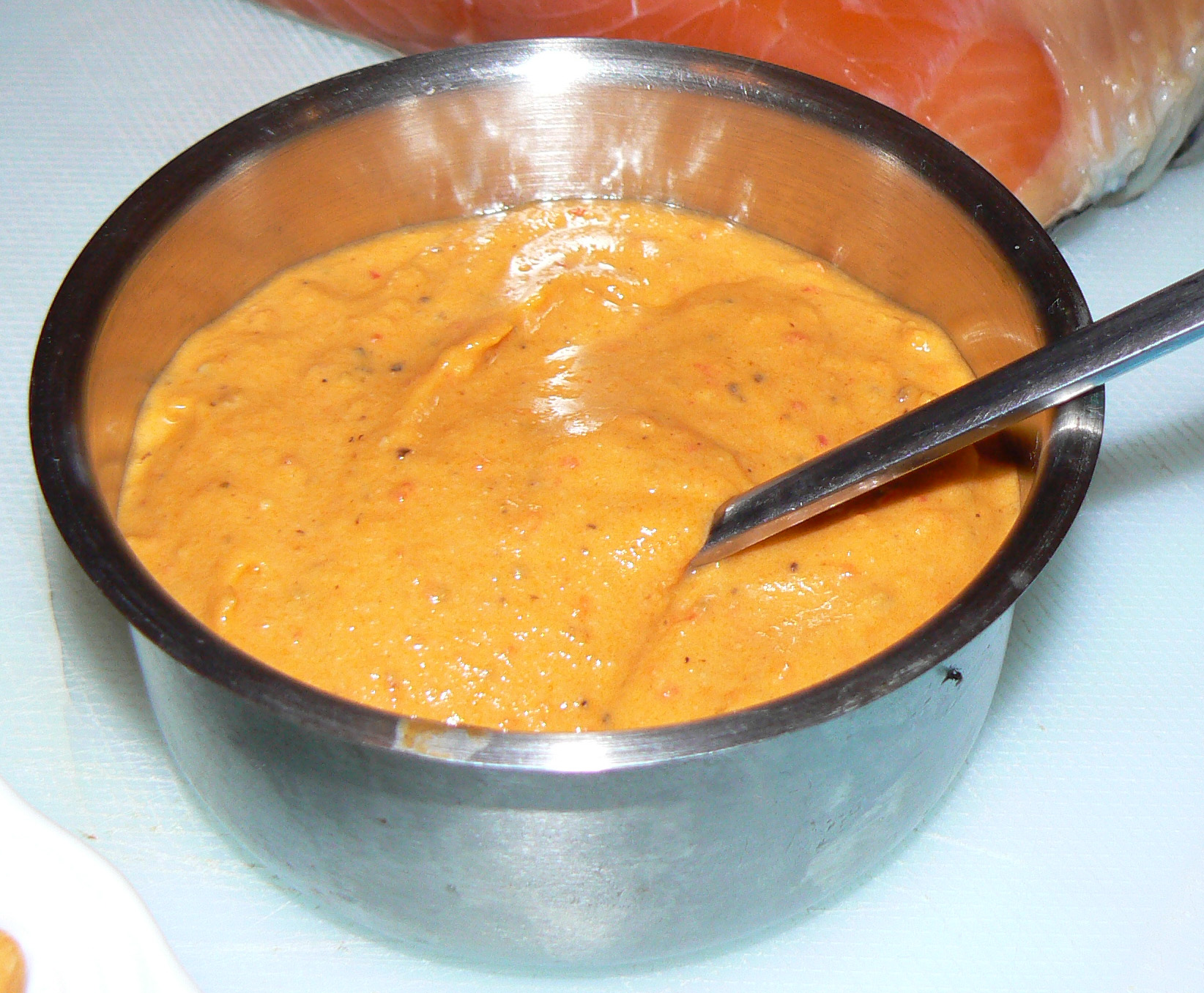 A bowl of almogrote